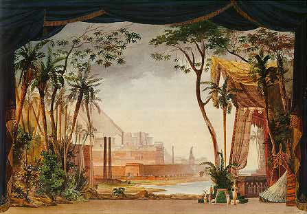 Set design for the opera Moïse et Pharaon, Paris, 1827. This comes from my collection and was scanned by me. Mrlopez2681 04:00, 2 January 2007 (UTC)